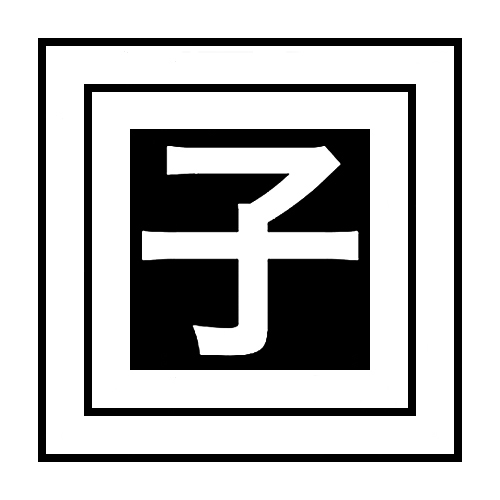 Japanese family crest "Mimasu no naka ni Ko-no-ji", three volume measuring boxes (masu) stacked, carrying a kanji "子" (ko, child) in the center